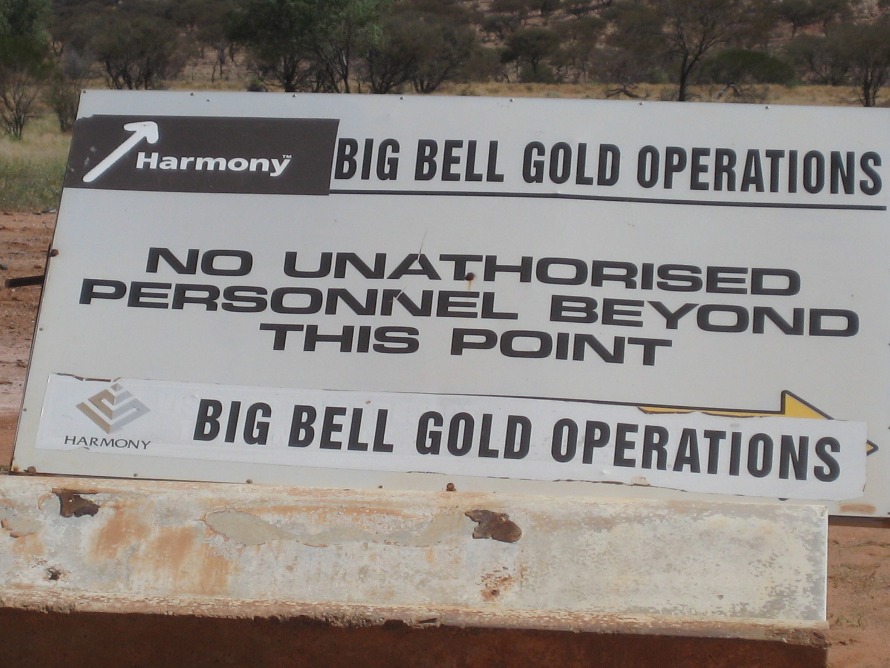 The entrance to the closed Big Bell Gold Mine at Big Bell, Western Australia.